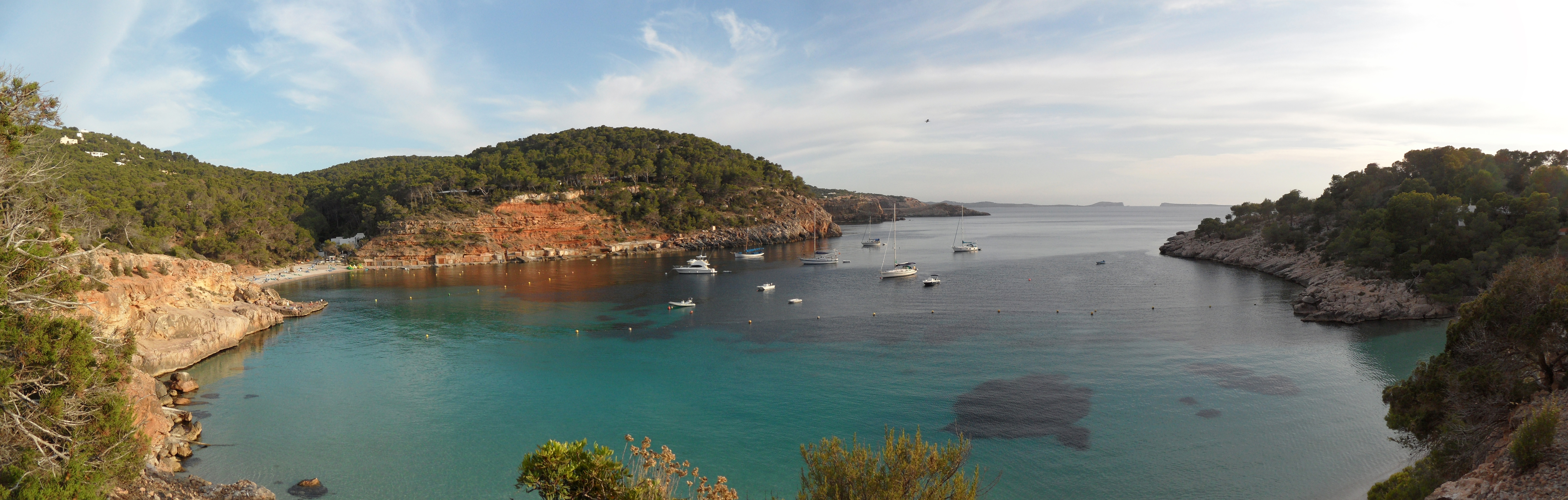 Panoramic image from Ibiza's Cala Salada